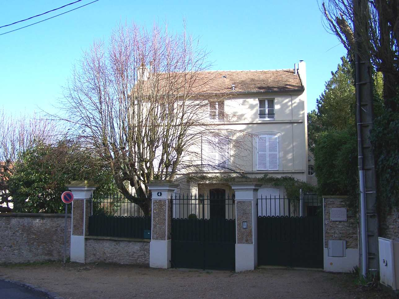 The house Baudot in Louveciennes (Yvelines, France)